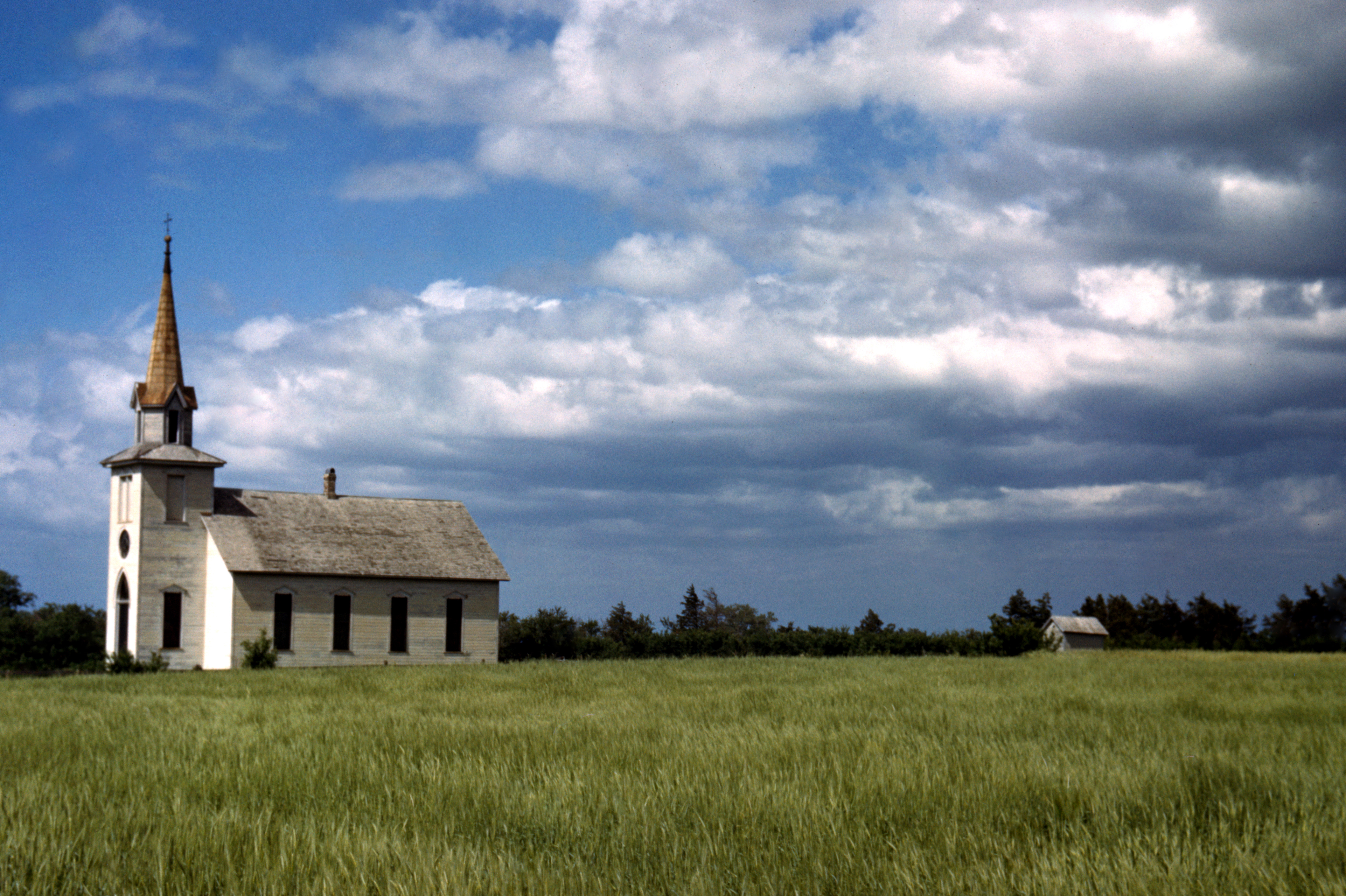 A small, country church located near the town of Junction City, Kansas, US.